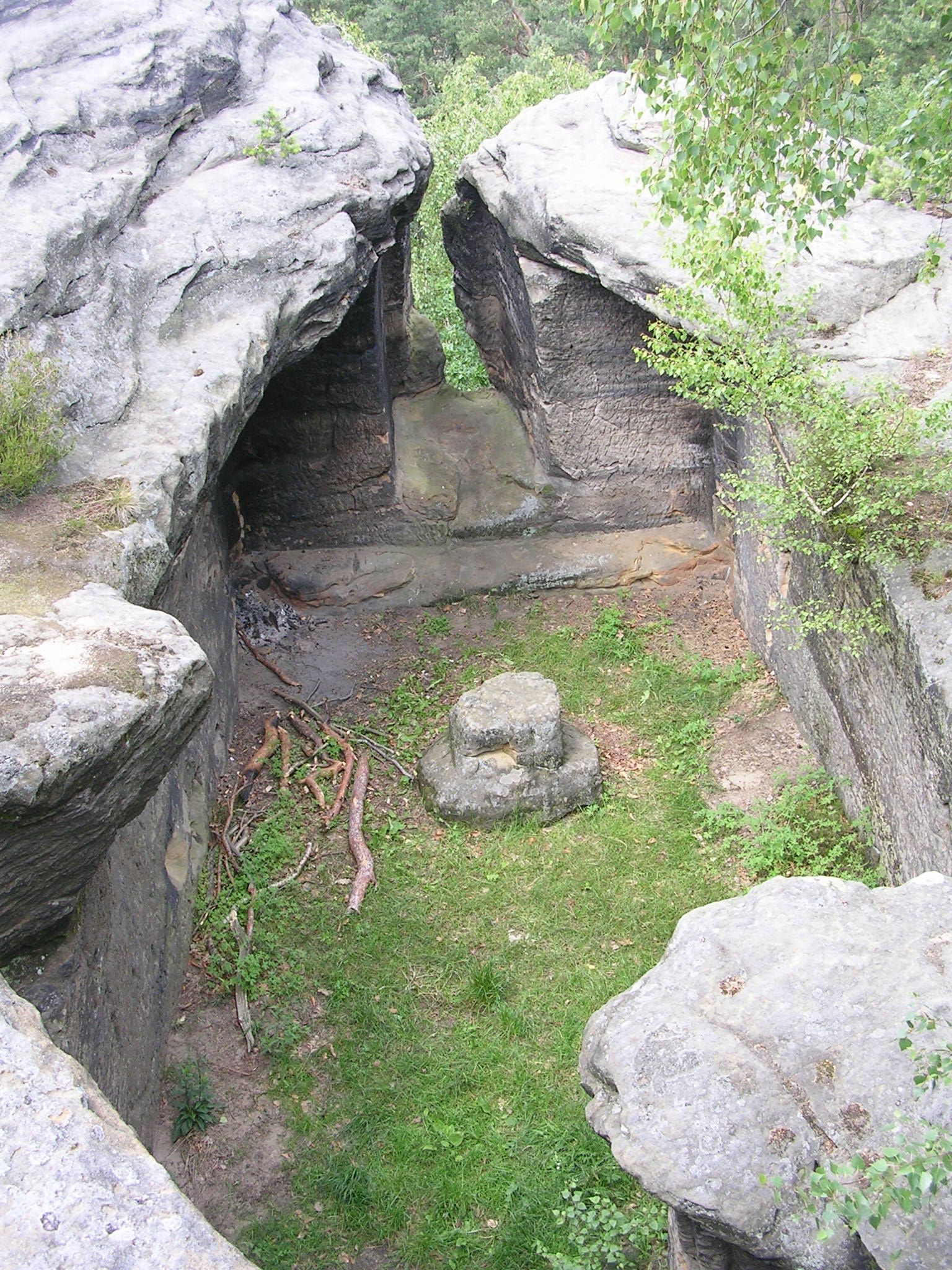 Mladá Boleslav District, Central Bohemian Region, the Czech Republic. Klamorna Castle. - Google Maps - Google Earth